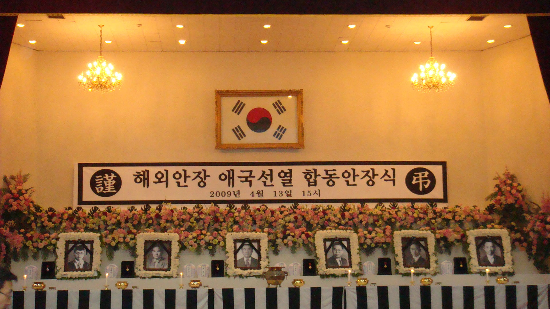 reburial ceremony at Daejeon memorial park, 13th April, 2009 (좌로부터 장용호, 깁벽평, 정명, 이정호, 최능익, 송석준)